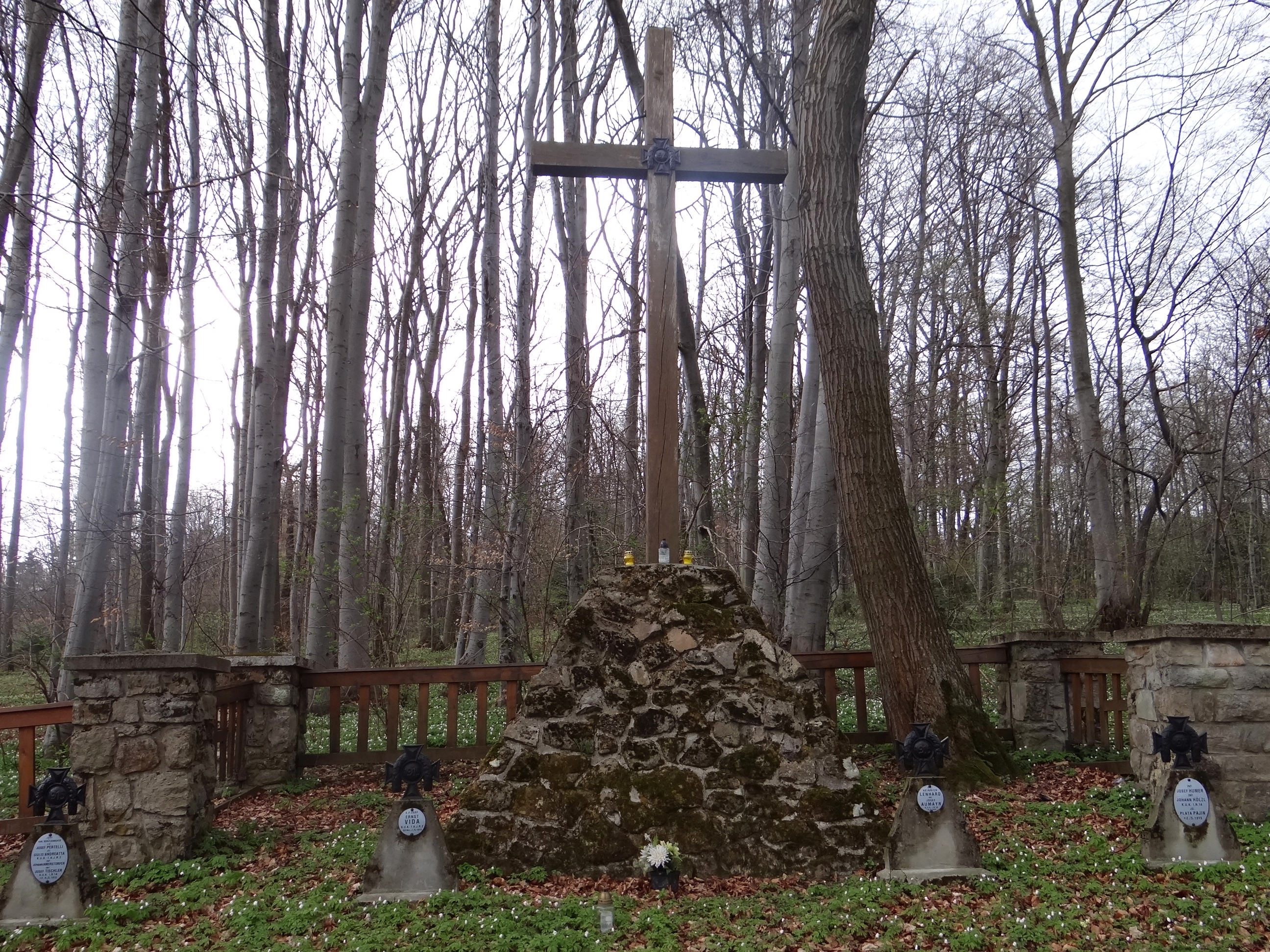 World War I Cemetery nr 187 in Lichwin